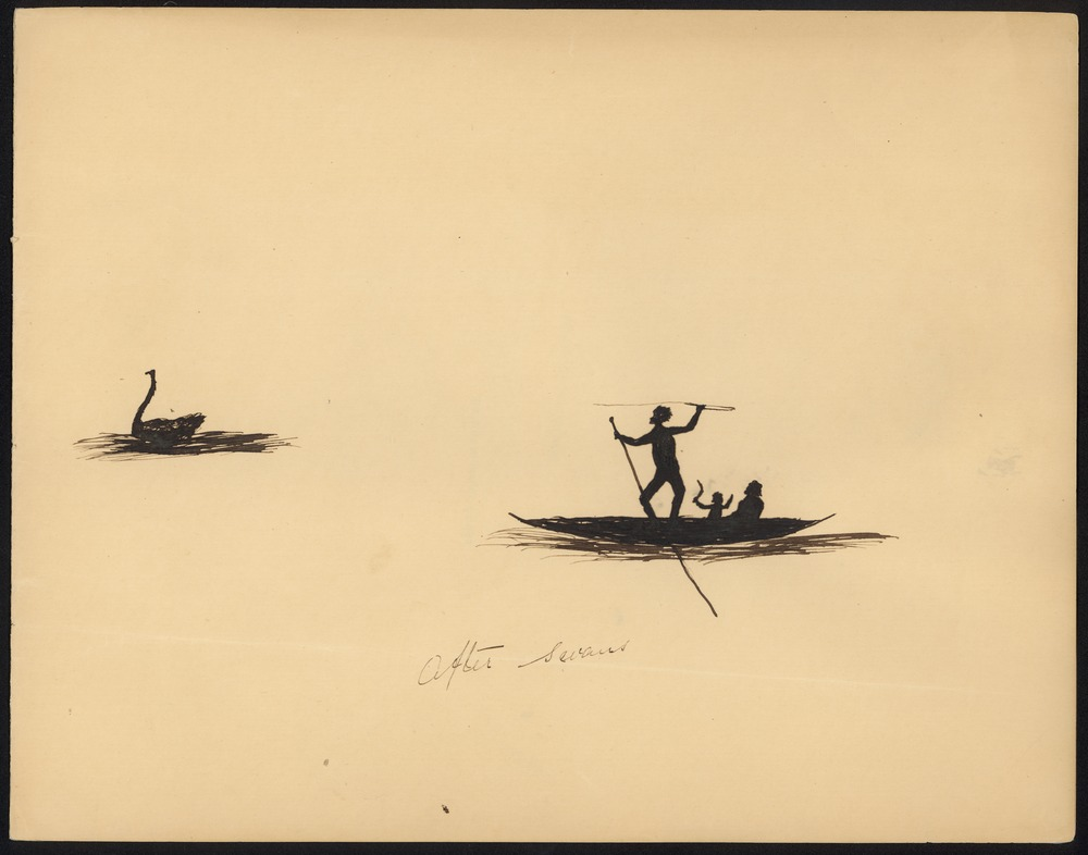 Silhouette like figures in a canoe, one standing holding up a spear, aiming it at a swan.